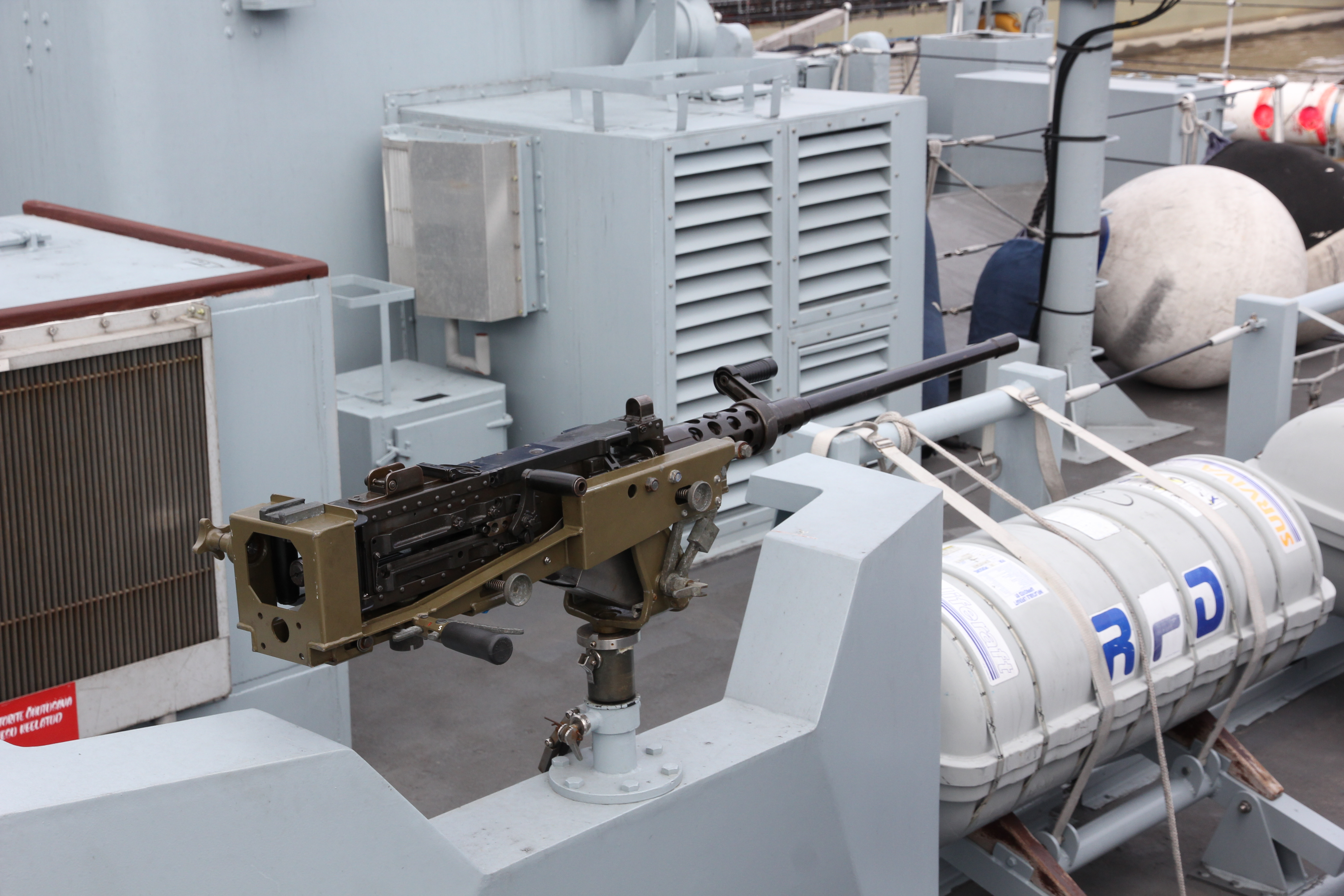 12.7 mm Browning M2 heavy machine gun on Estonian Sandown-class minehunter M314 Sakala photographed during the Northern Coasts 2014 exercise public pre sail event in Aura river in Turku.